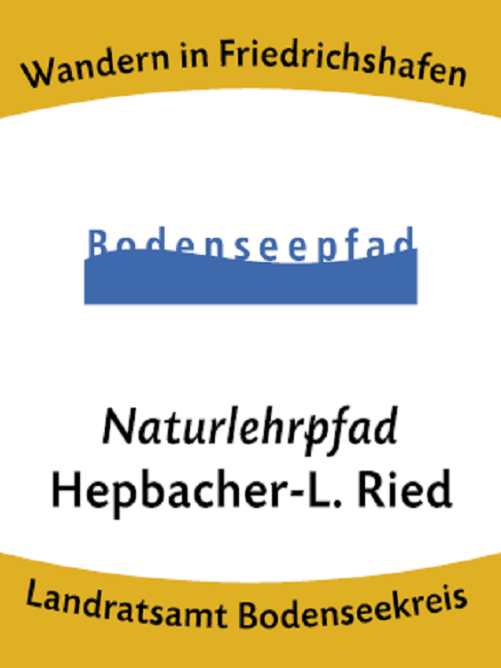 Germany - Baden-Württemberg - Bodenseekreis - Friedrichshafen: nature reserve "Hepbacher-Leimbacher Ried", signpost "Bodenseepfad"